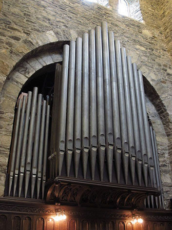 Pipes of the organ in Clark Memorial Chapel, Pomfret School, Pomfret, Connecticut, USA